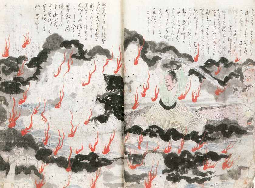 Funayūrei (船幽霊, ghosts of people dead at sea) from the "Tosa bakemono ehon" (土佐化物絵本, Japanese picture)